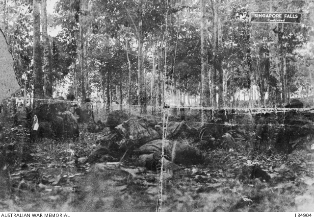 C.1942-01. JAPANESE SOLDIERS IN THE BUKIT TIMAH AREA, ABOUT SIX MILES FROM SINGAPORE, PRIOR TO THE CAPITULATION OF THE BRITISH FORCES IN MALAYA. PHOTOGRAPH REPRODUCED IN A JAPANESE PROPAGANDA MAGAZINE ENTITLED "HOME" WHICH CAME INTO THE POSSESSION OF NX25802 PRIVATE F. A. IRVING, 2/19TH INFANTRY BATTALION, WHILE HE WAS A PRISONER-OF-WAR IN SINGAPORE. (DONOR: PRIVATE F. A. IRVING).